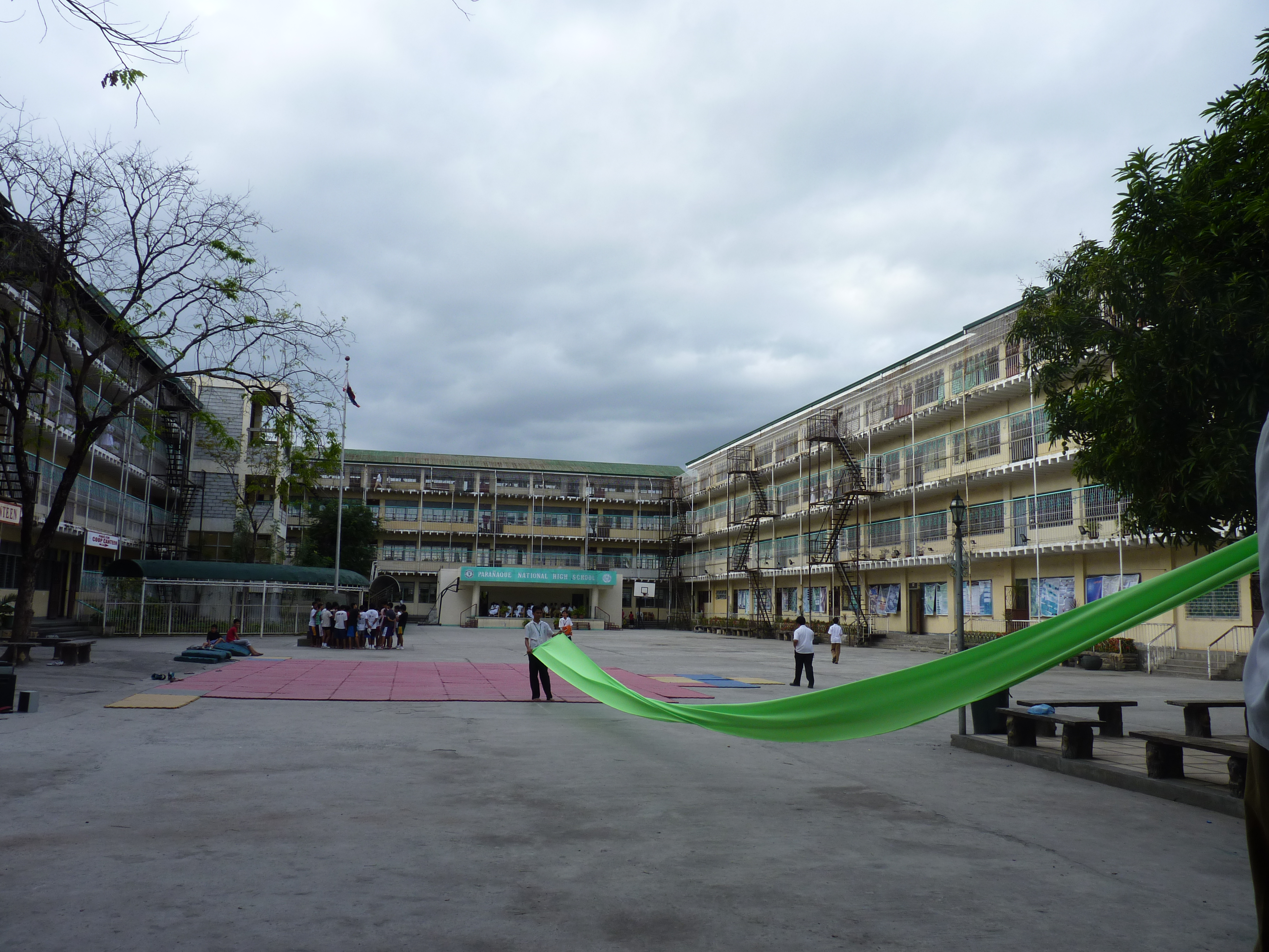 School grounds